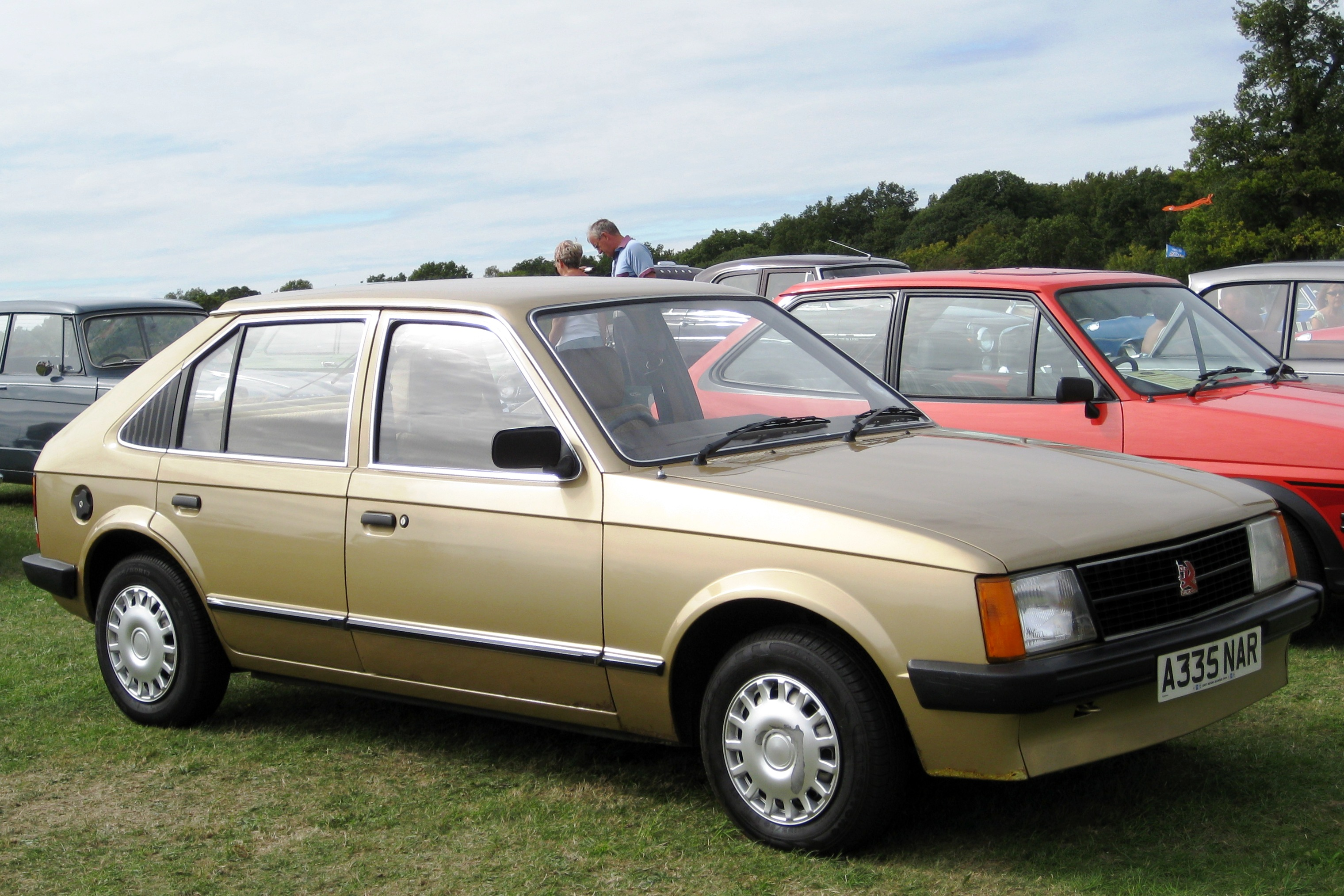 Vauxhall Astra MkI Hatchback. After 1991, the 'Kadett' trademark disappears. Astra then designates the two models, mid-sized Brit car as its continental counterpart released by Opel.